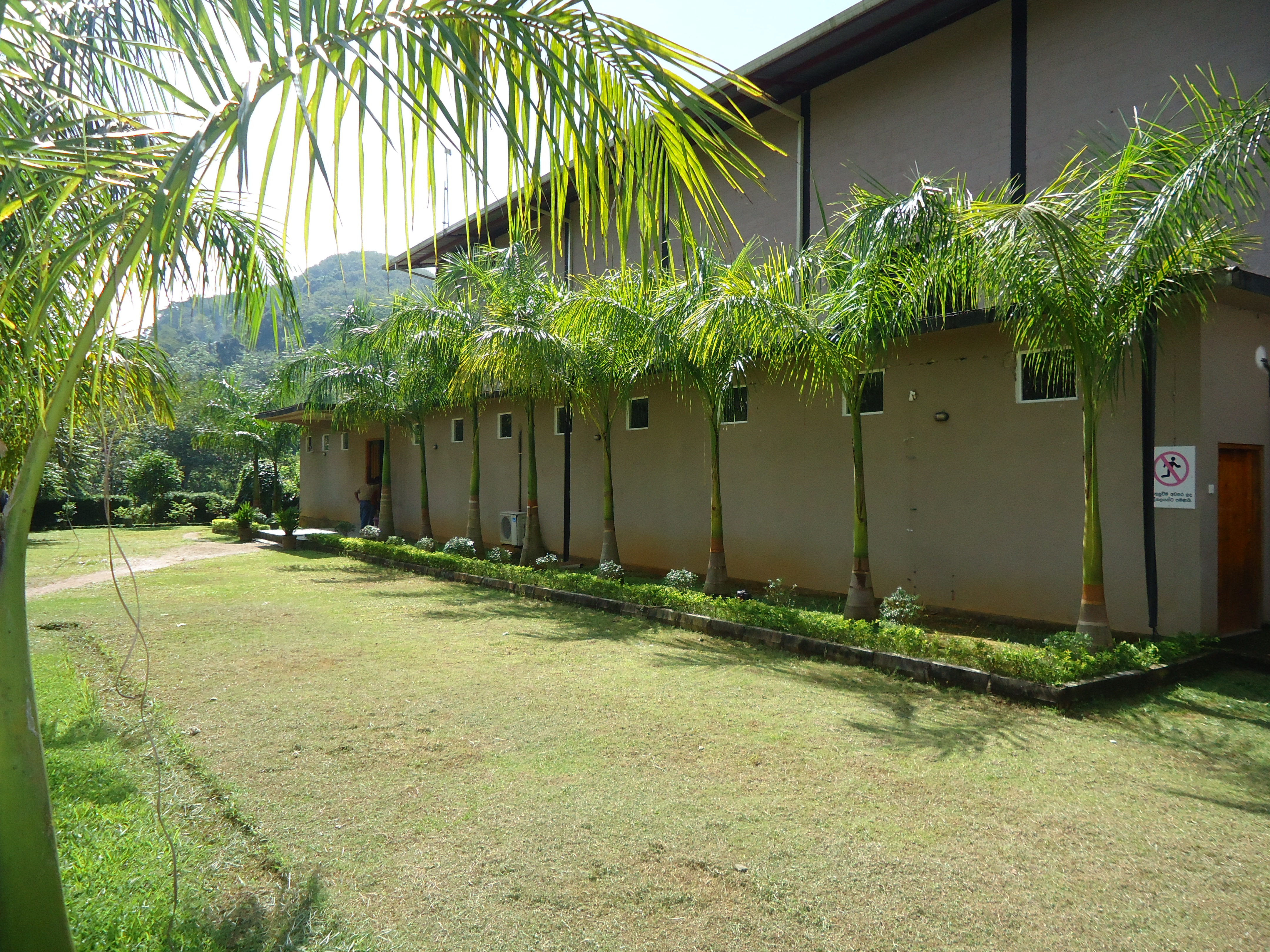 Power House